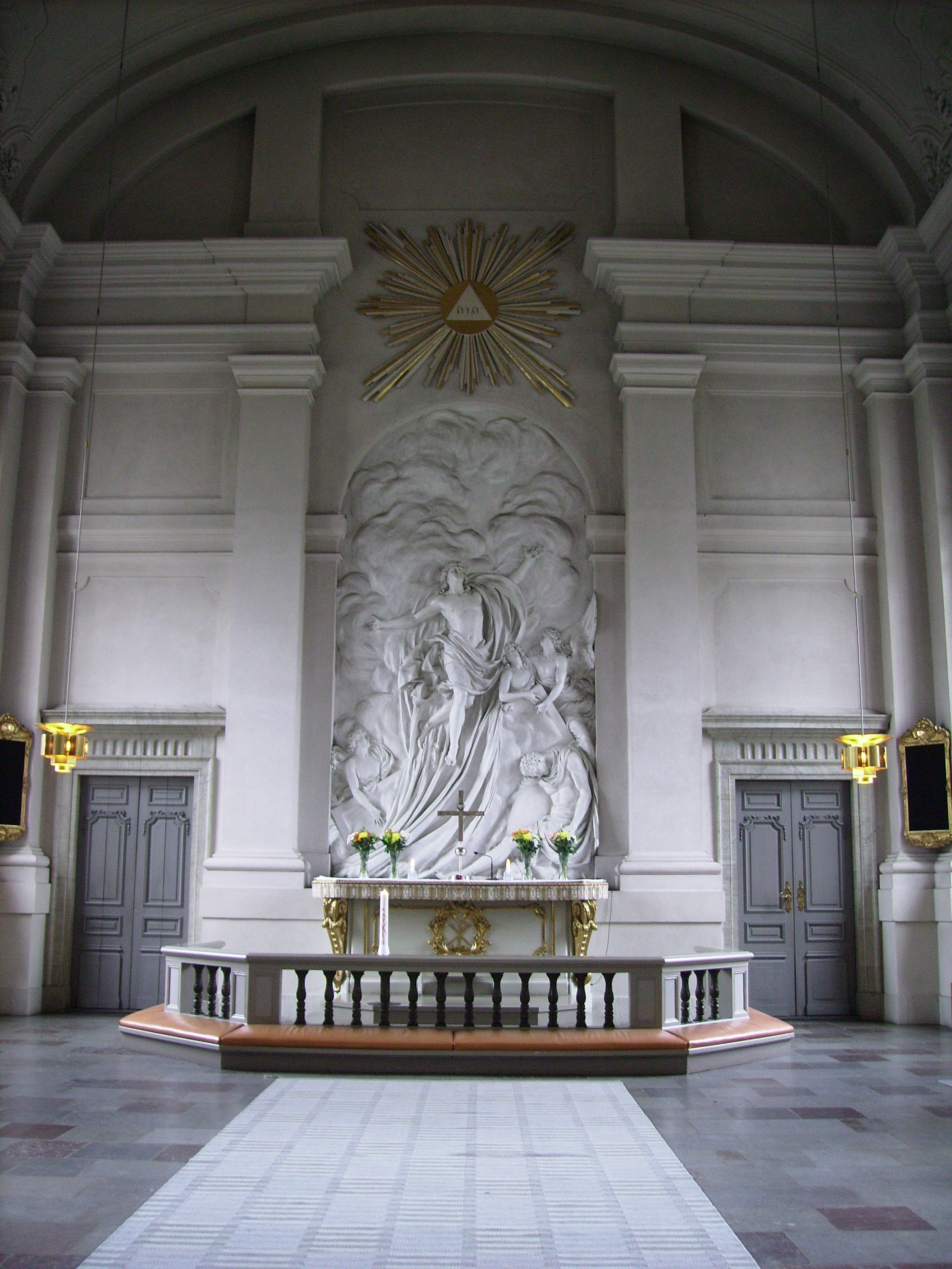 Picture of the altar in Adolf Fredriks kyrka in Stockholm